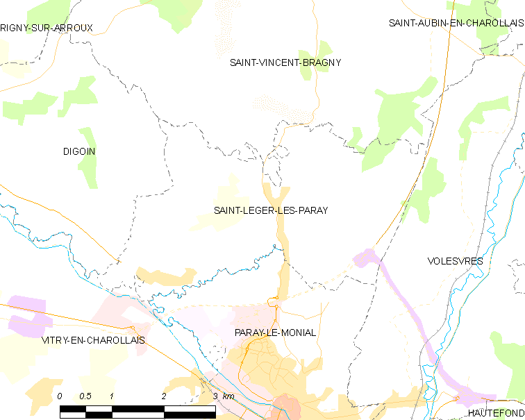 Map of French municipality